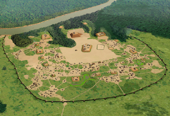 Artists conception of the Moundville Site, a Mississippian culture site on the Black Warrior River in Hale County, Alabama. The site was the political and ceremonial center of a paramount chiefdom polity between the 1000 to 1500 CE. The site encompasses 185 acres , consisting of 29 platform mounds around a rectangular plaza and surrounded by a protective bastioned palisade. All rights held by the artist, Herb Roe© 2020.